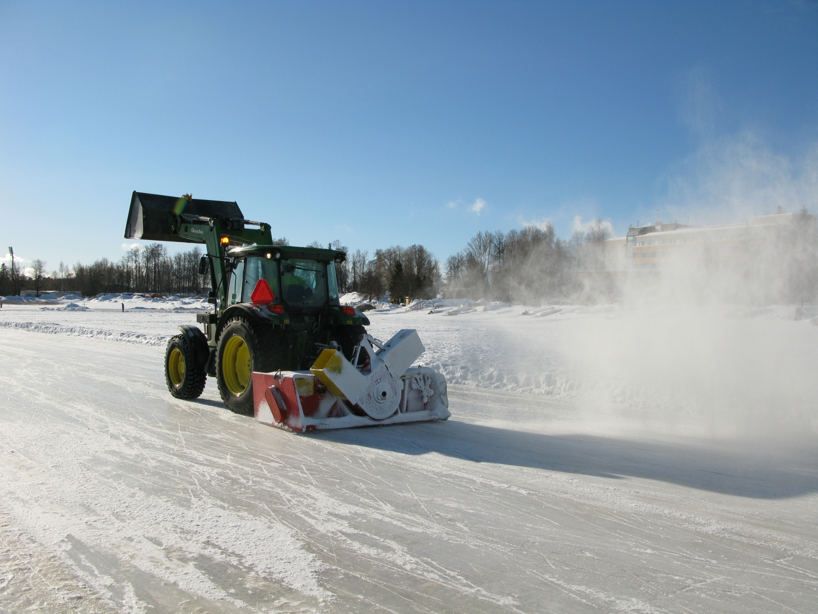 Tractor with a snowblower on lake Kallavesi in Kuopio, Finland